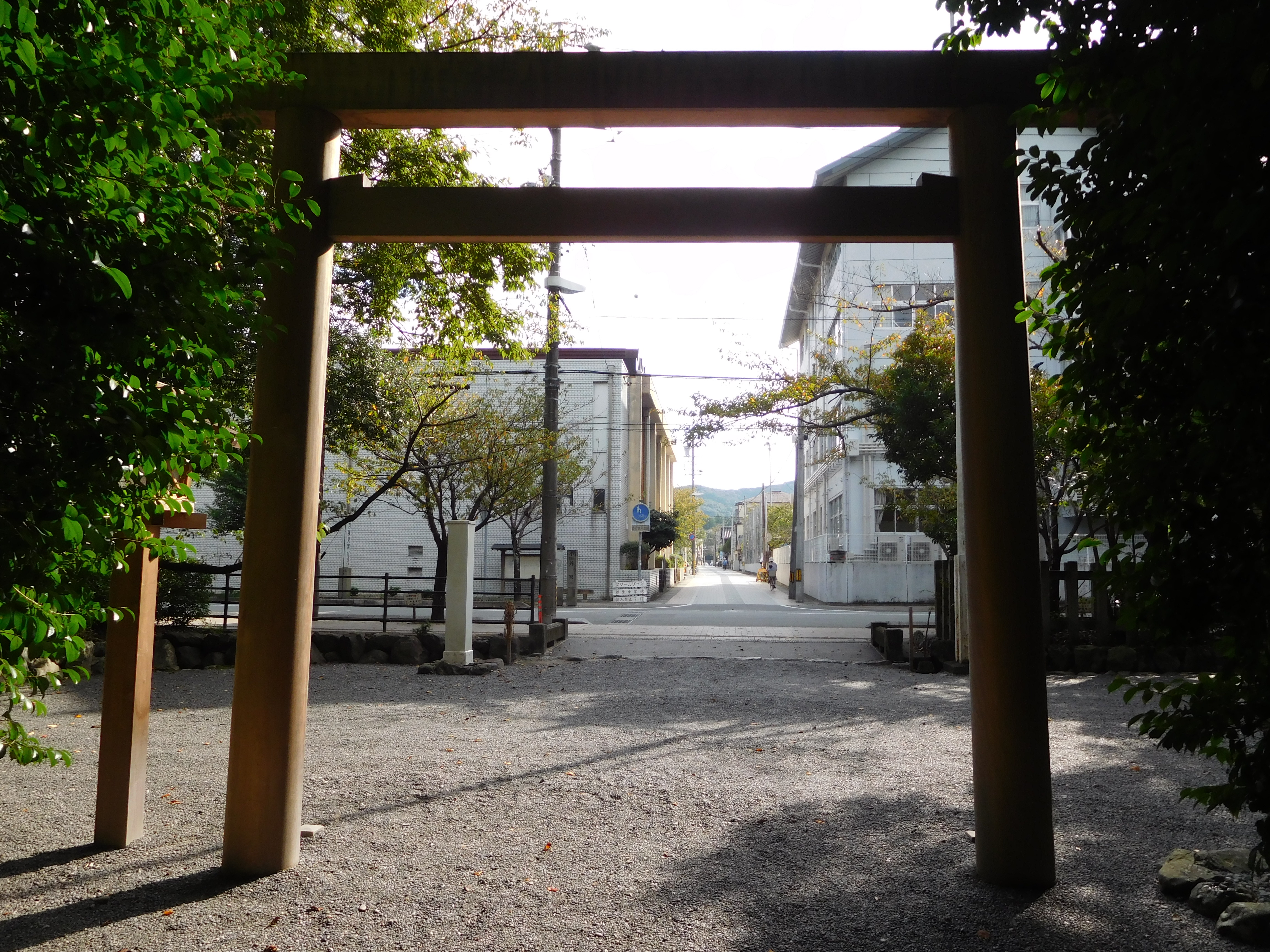 This is Kamiji street in Ise, Mie, Japan.